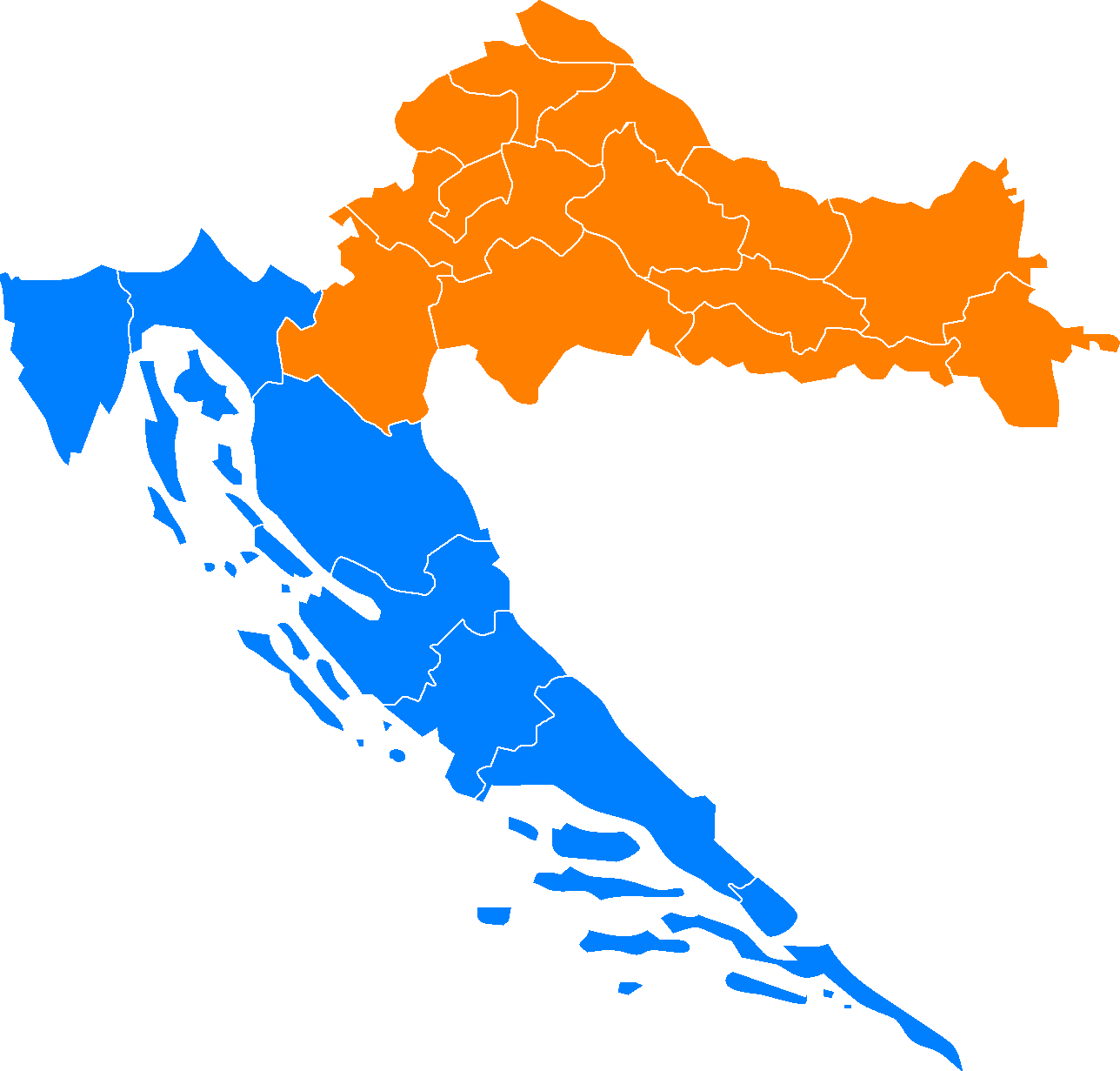 Proposed division of Croatia to two NUTS-2 regions